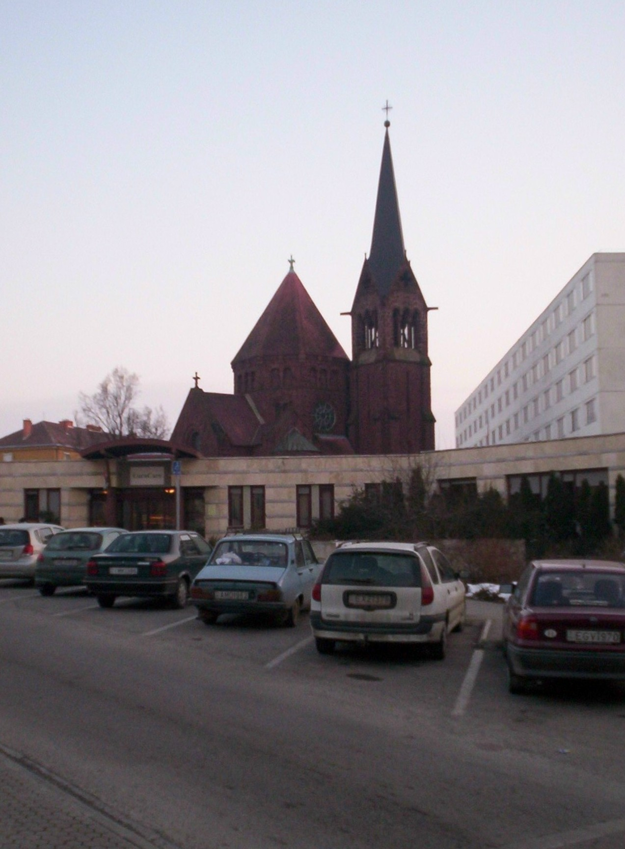 Description: Károly Church, Veszprém